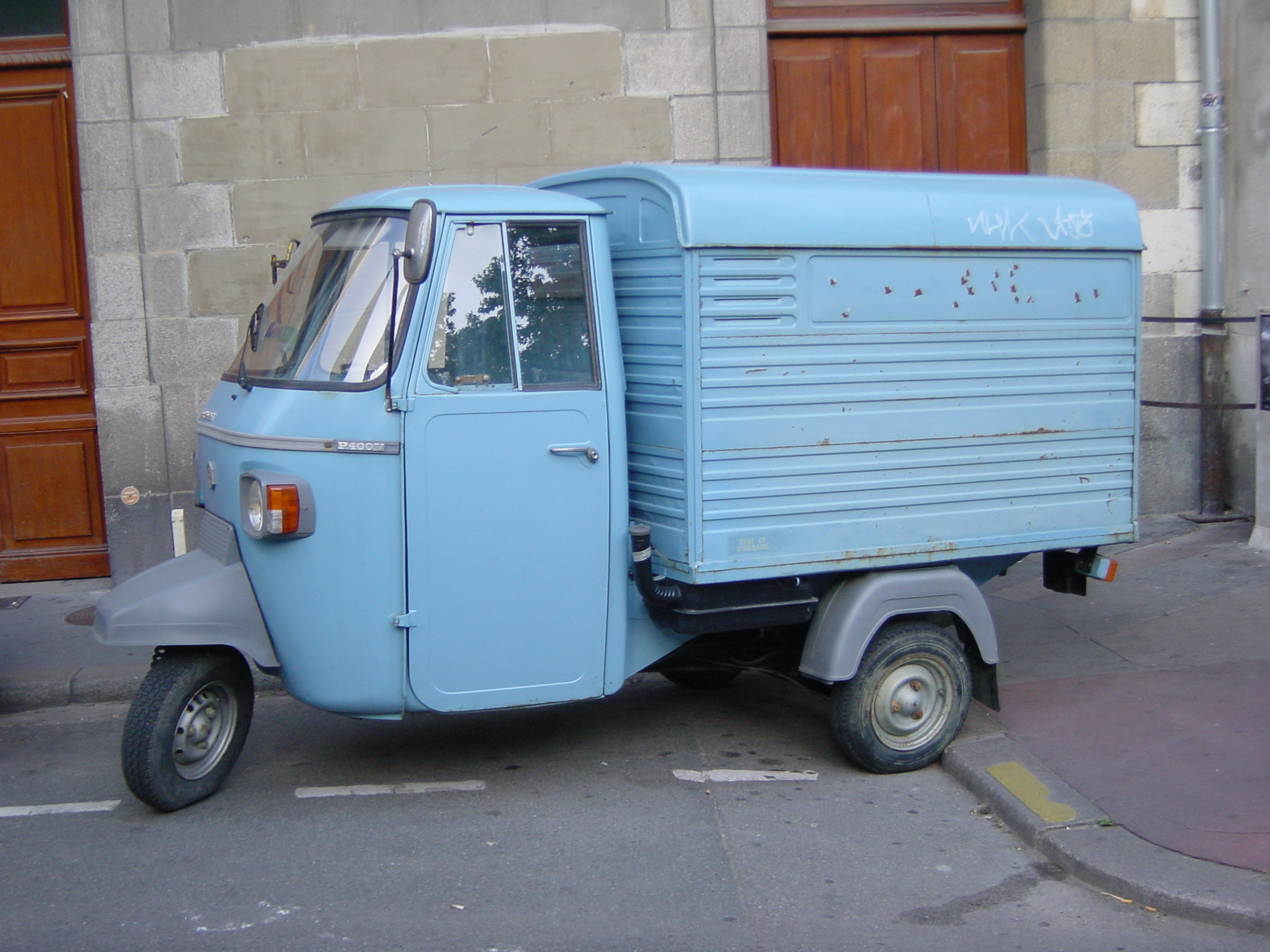 A Piaggio Vespacar APE P400V (aka MPF P400V).